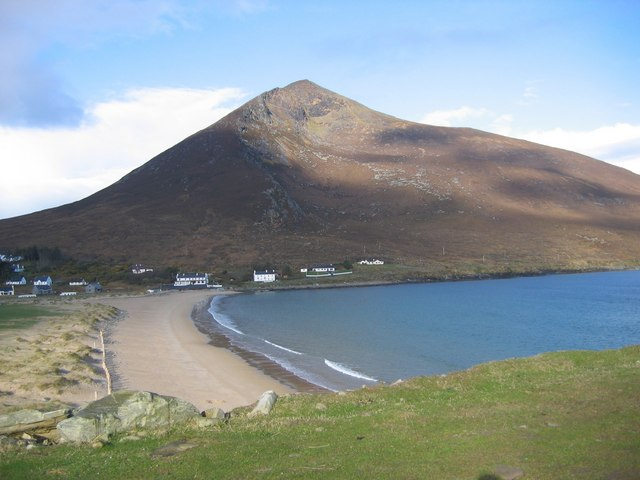 Doogort Beach, Achill Island Slievemore (672m) in the background